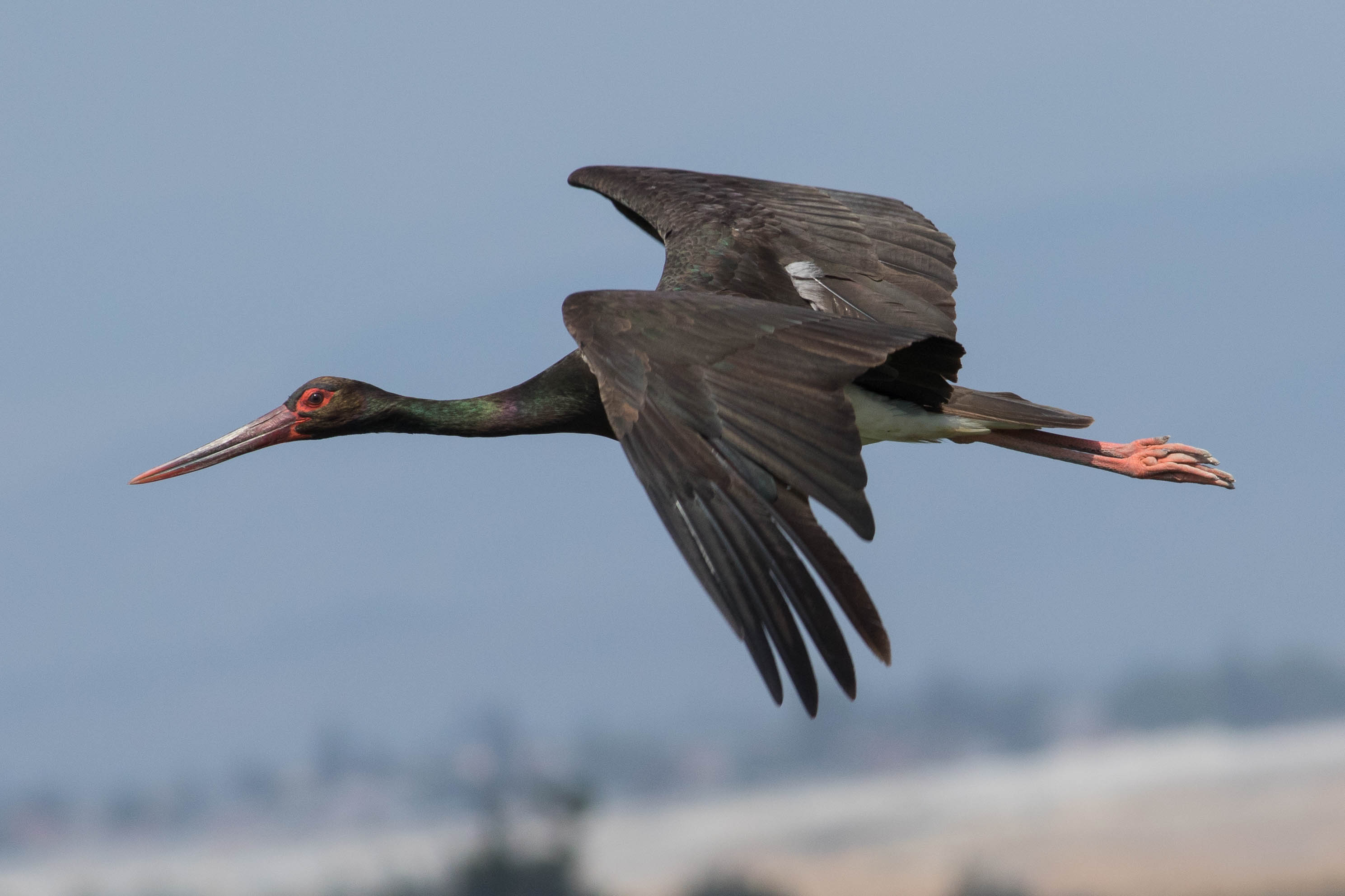 Black stork (Ciconia nigra) in flight, Israel.